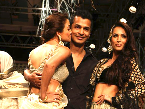 Amrita Arora & Malaika Arora Khan atVikram Phadnis' show at Lakme Fashion Week 2012 - Day 1